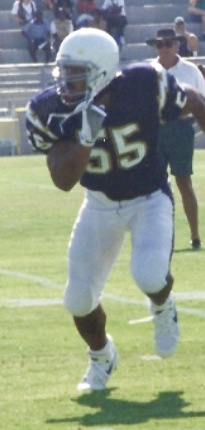 Junior Seau-Training Camp-1994 Photo Credit: Rob Street White "Throwback" Helmet